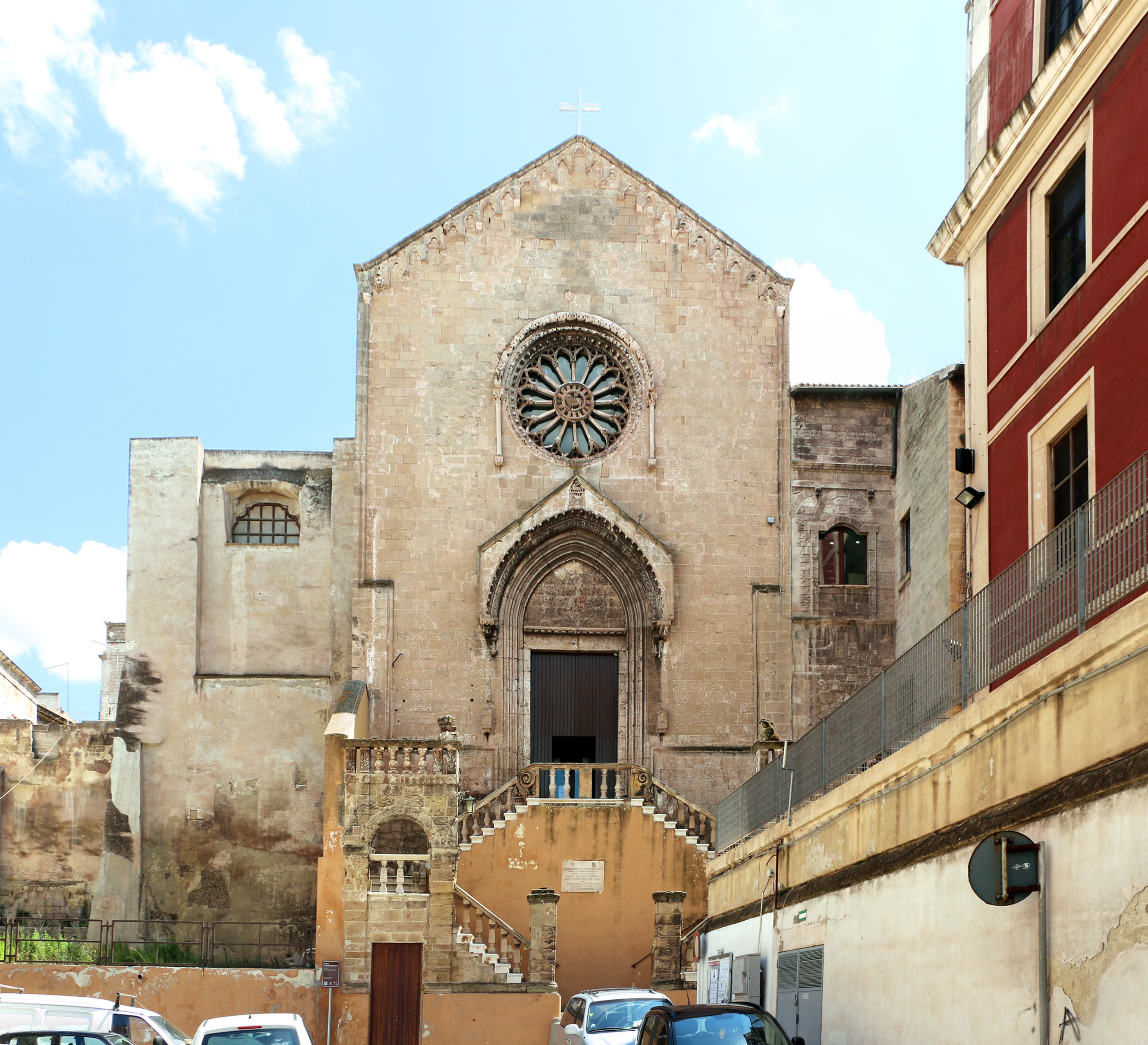 Buildings in Taranto